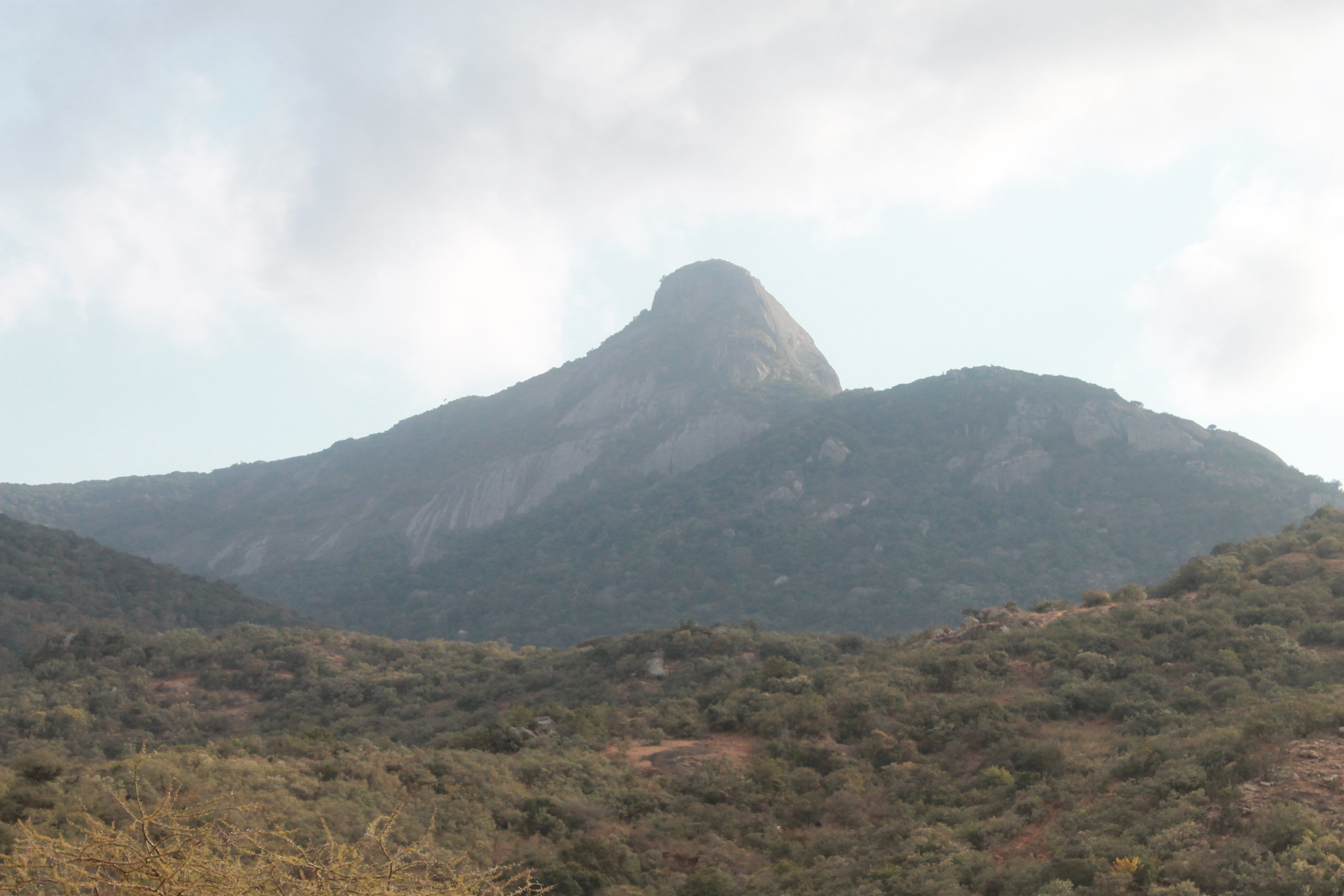 Picture of Mount Longido taken during an ascent.